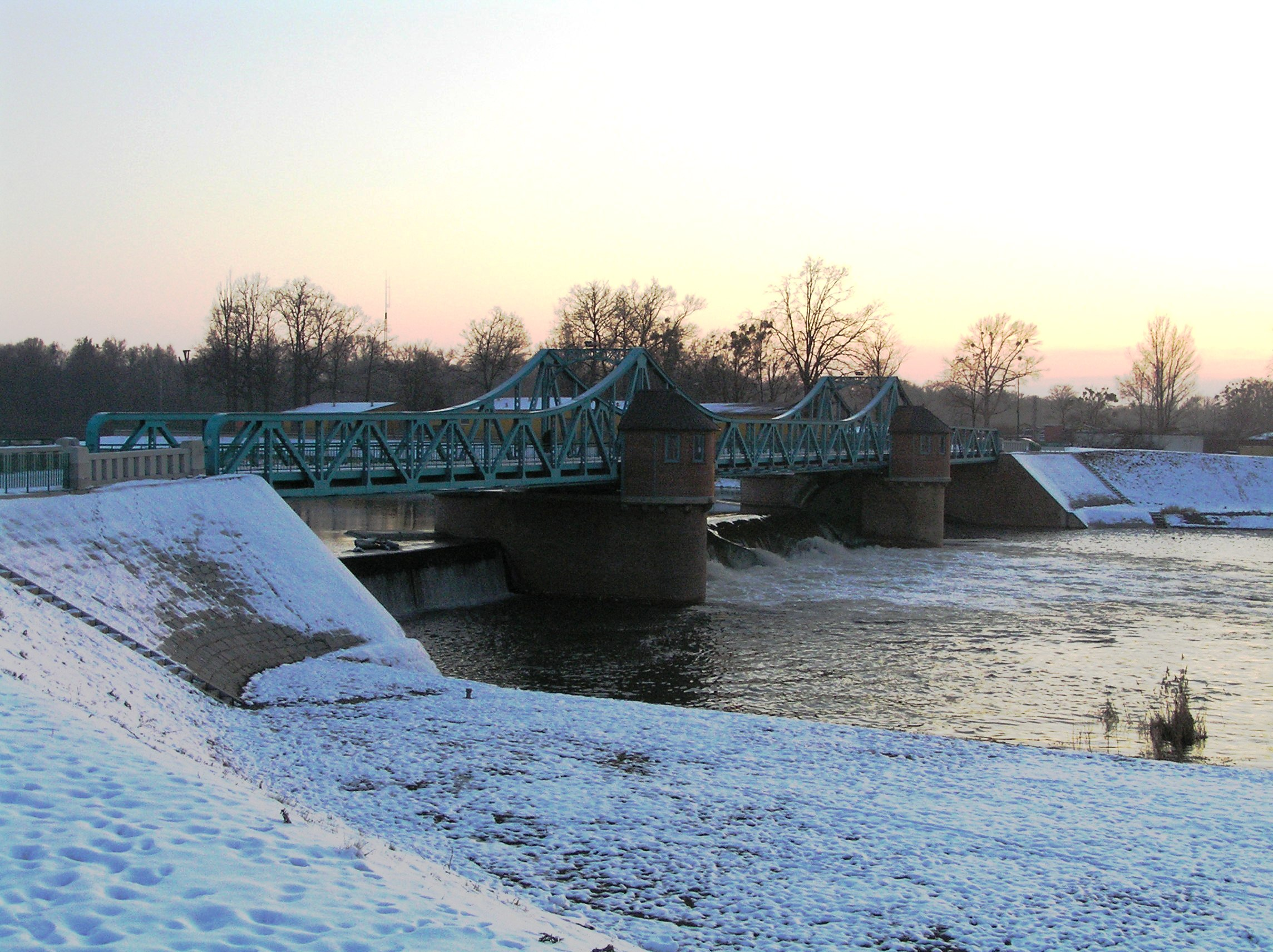 Bartoszowicki Bridge in winter, Wrocław, Poland